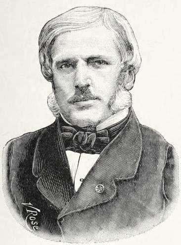 Alexandre Chassaigne-Goyon